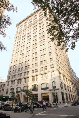 Picture of Benjamin N. Cardozo School of Law